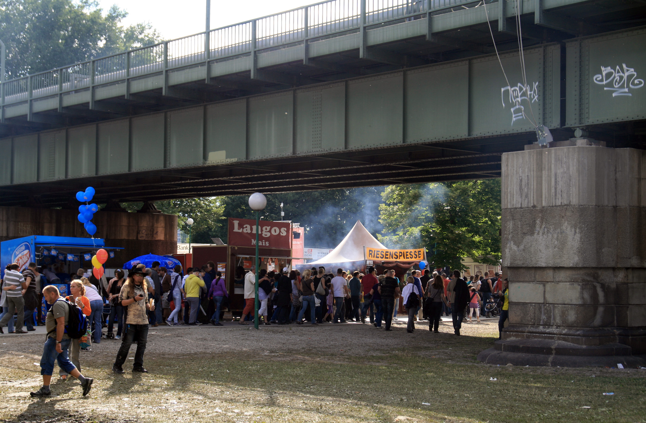 Snack bars near Nordbahnbrücke during the Donauinselfest 2011 in Vienna.